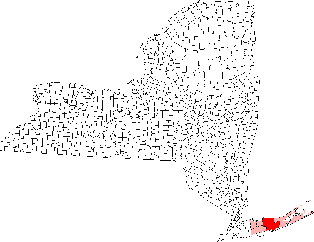 Location of Brookhaven in Suffolk County, New York.